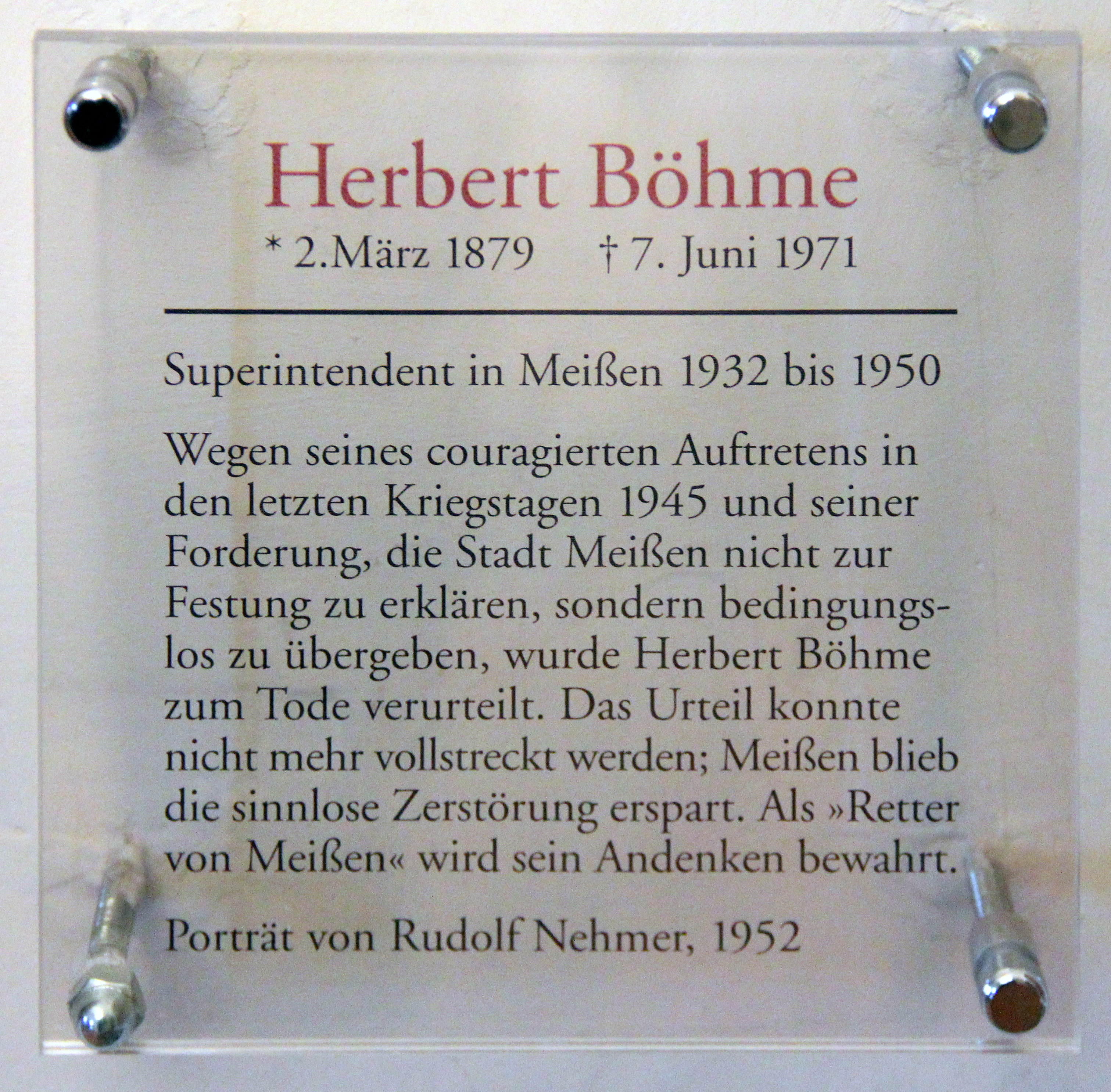 Memorial plaque, Herbert Böhme, Domplatz, Meißen, Germany